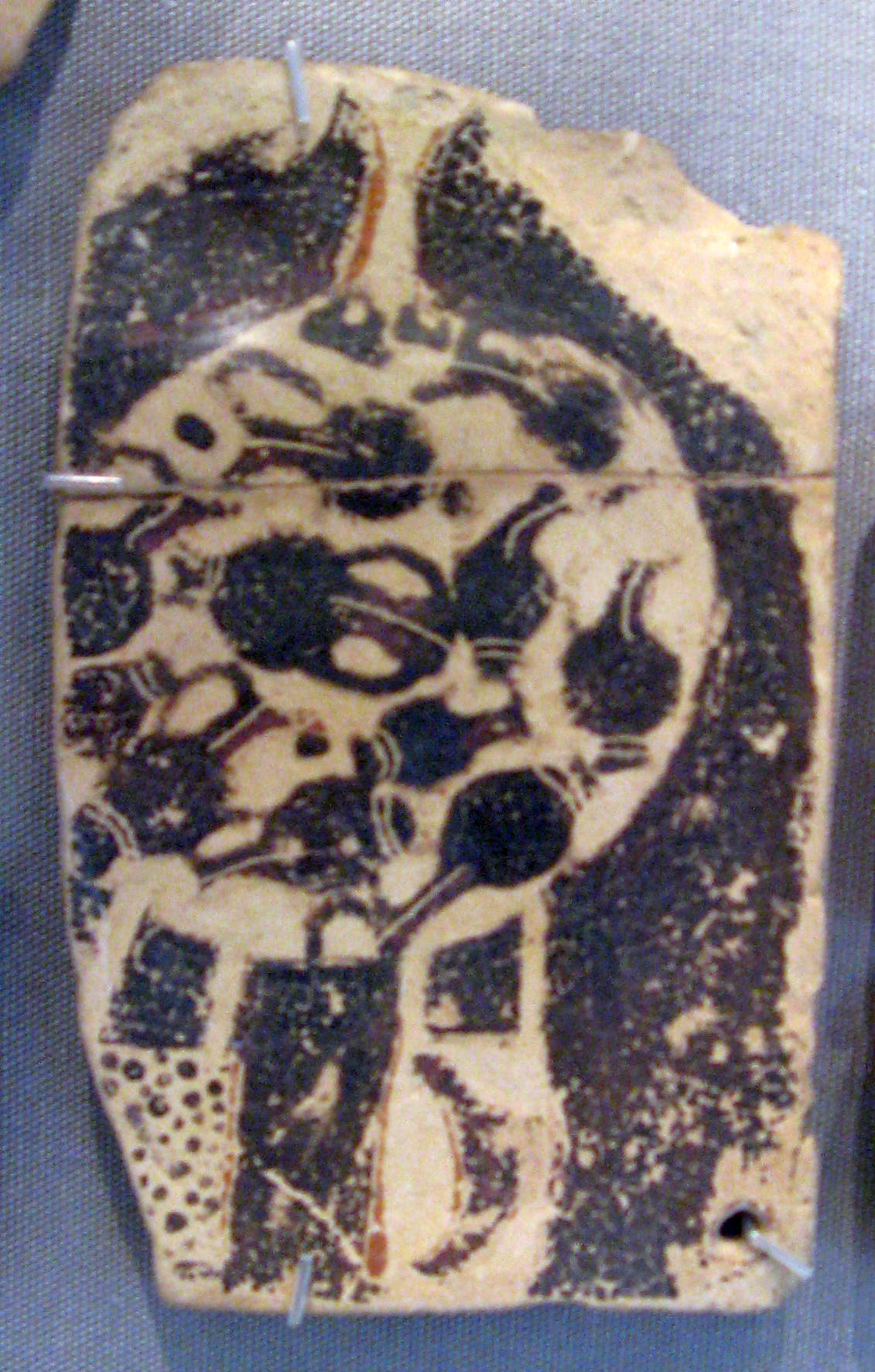 Looking inside the Kiln, Corinthian plaque, 575–550 BC. From Penteskouphia, now Antikensammlung Berlin/Altes Museum